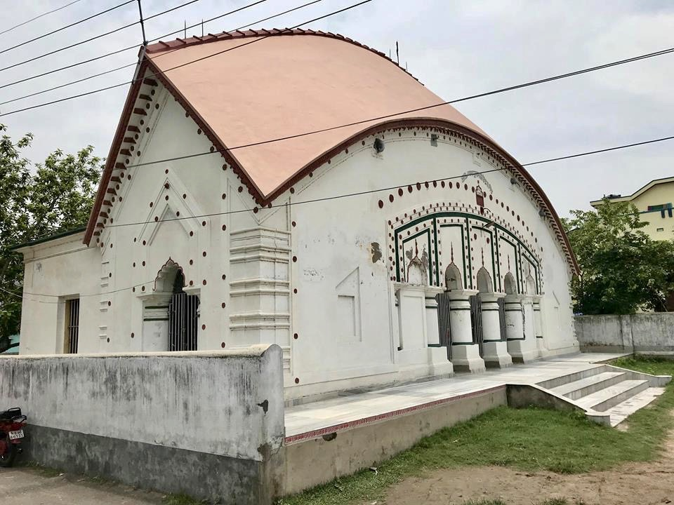 Nandadulal Temple of Chandannagar, Hooghly